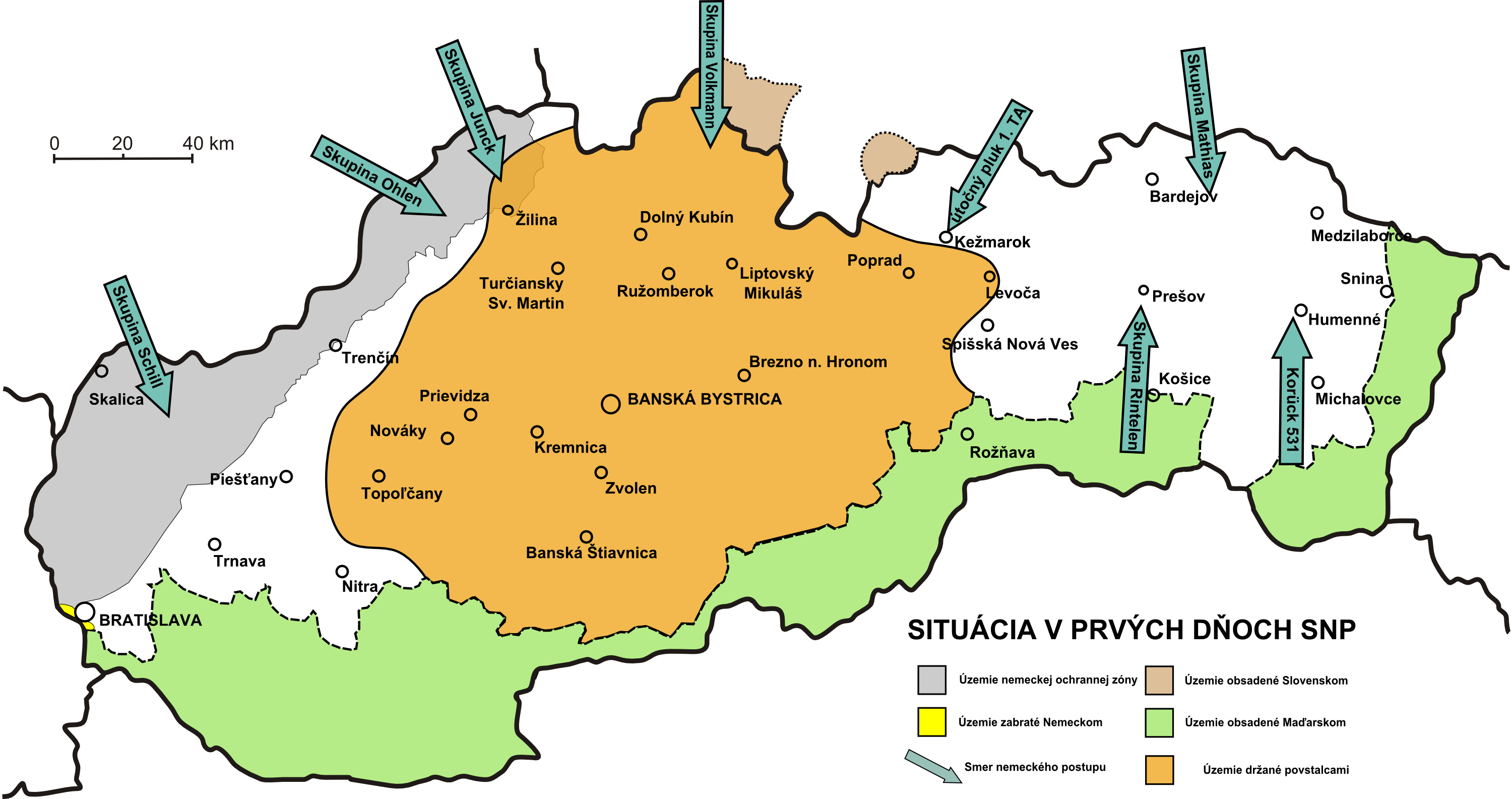 Situation map in first 2 days of Slovak National Uprising